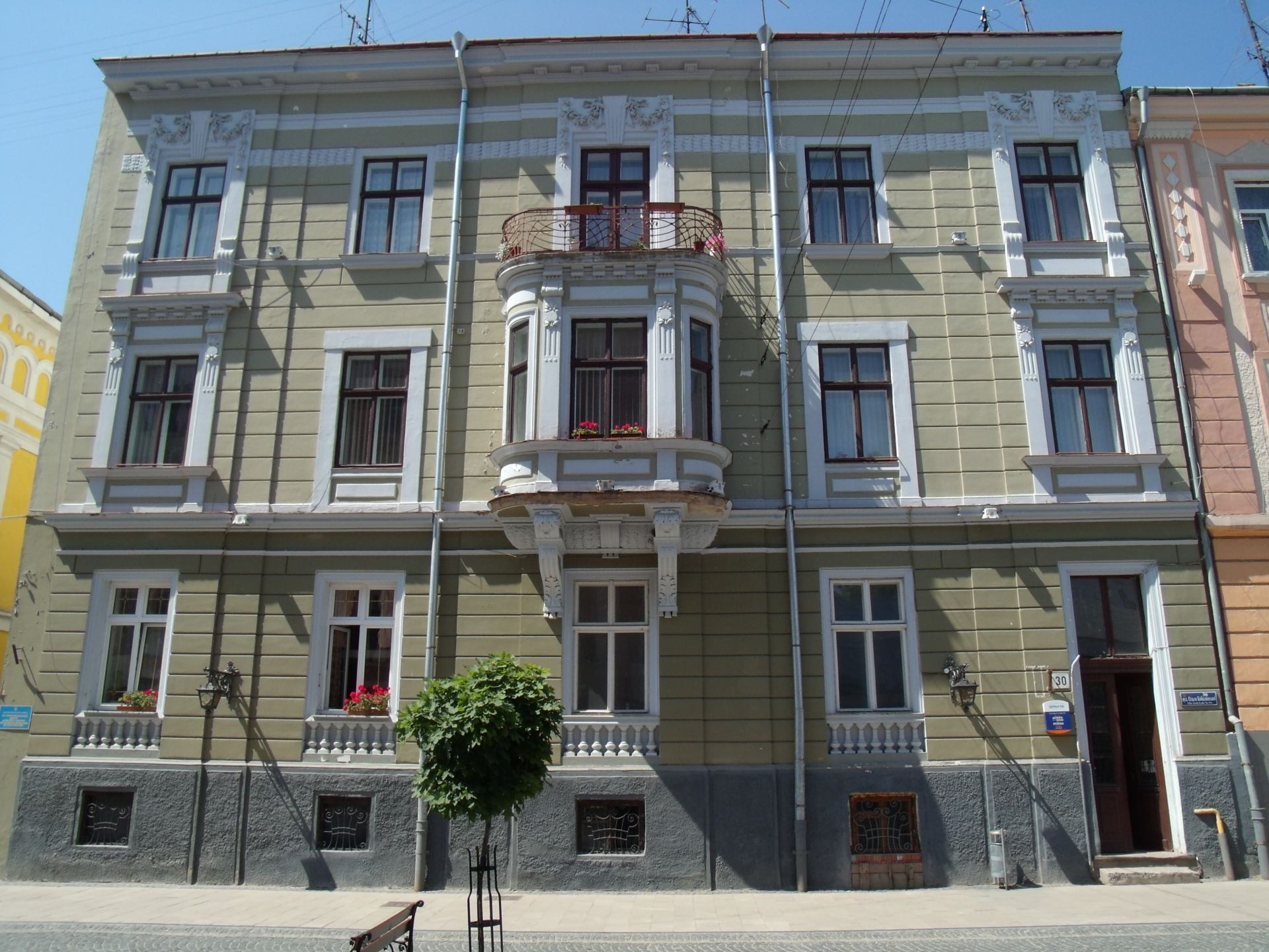 Chernivtsi, Kobylianska house 30